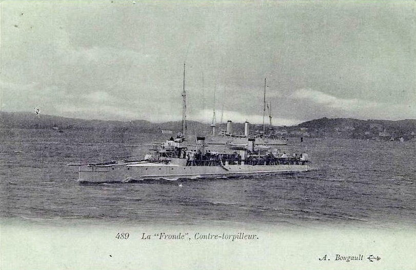 French destroyer Fronde